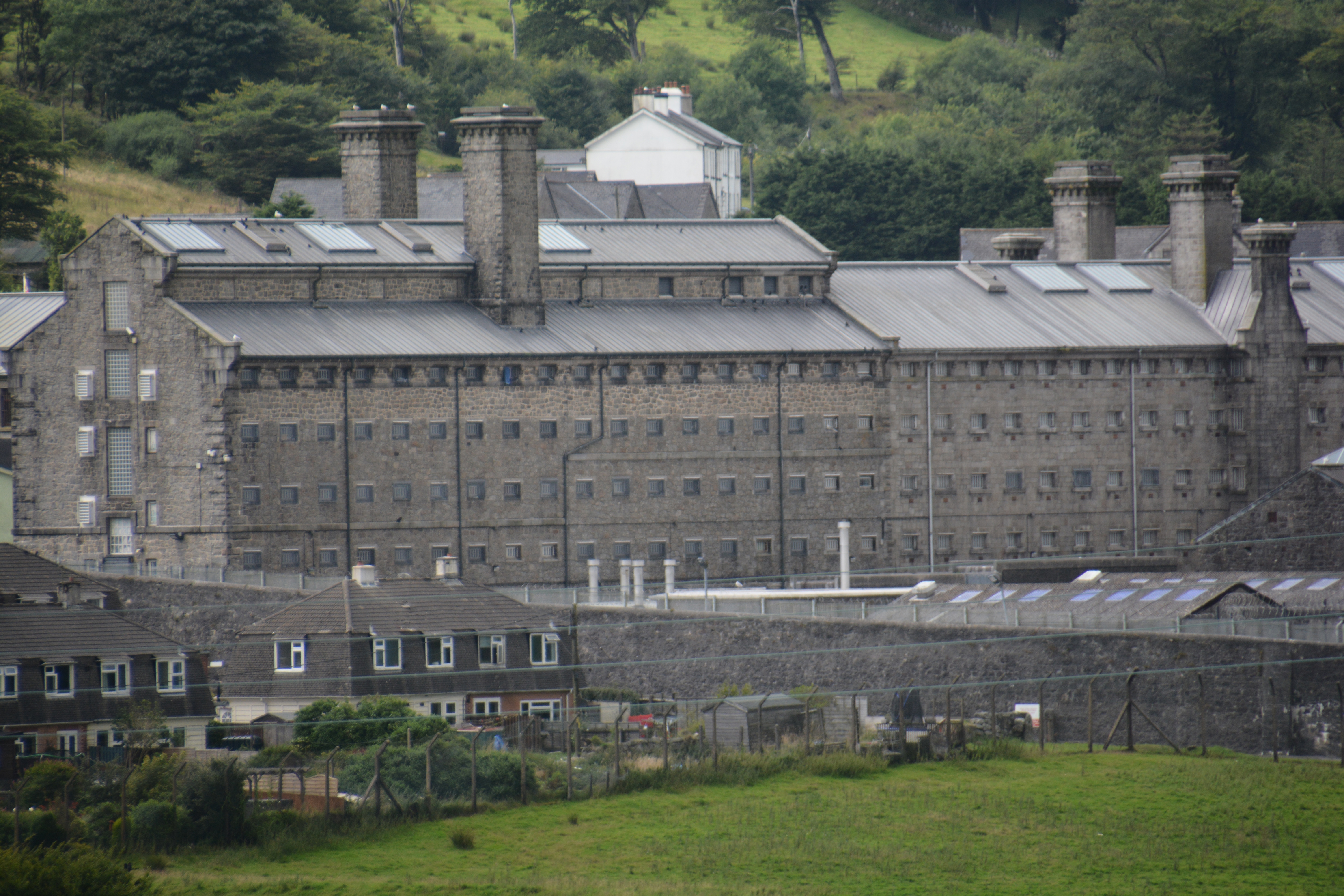 Princetown : HM Prison Dartmoor. HM Prison Dartmoor is a Category C men's prison, located in Princetown, high on Dartmoor. Its high granite walls dominate this area of the moor. The prison is owned by the Duchy of Cornwall, and is operated by Her Majesty's Prison Service.